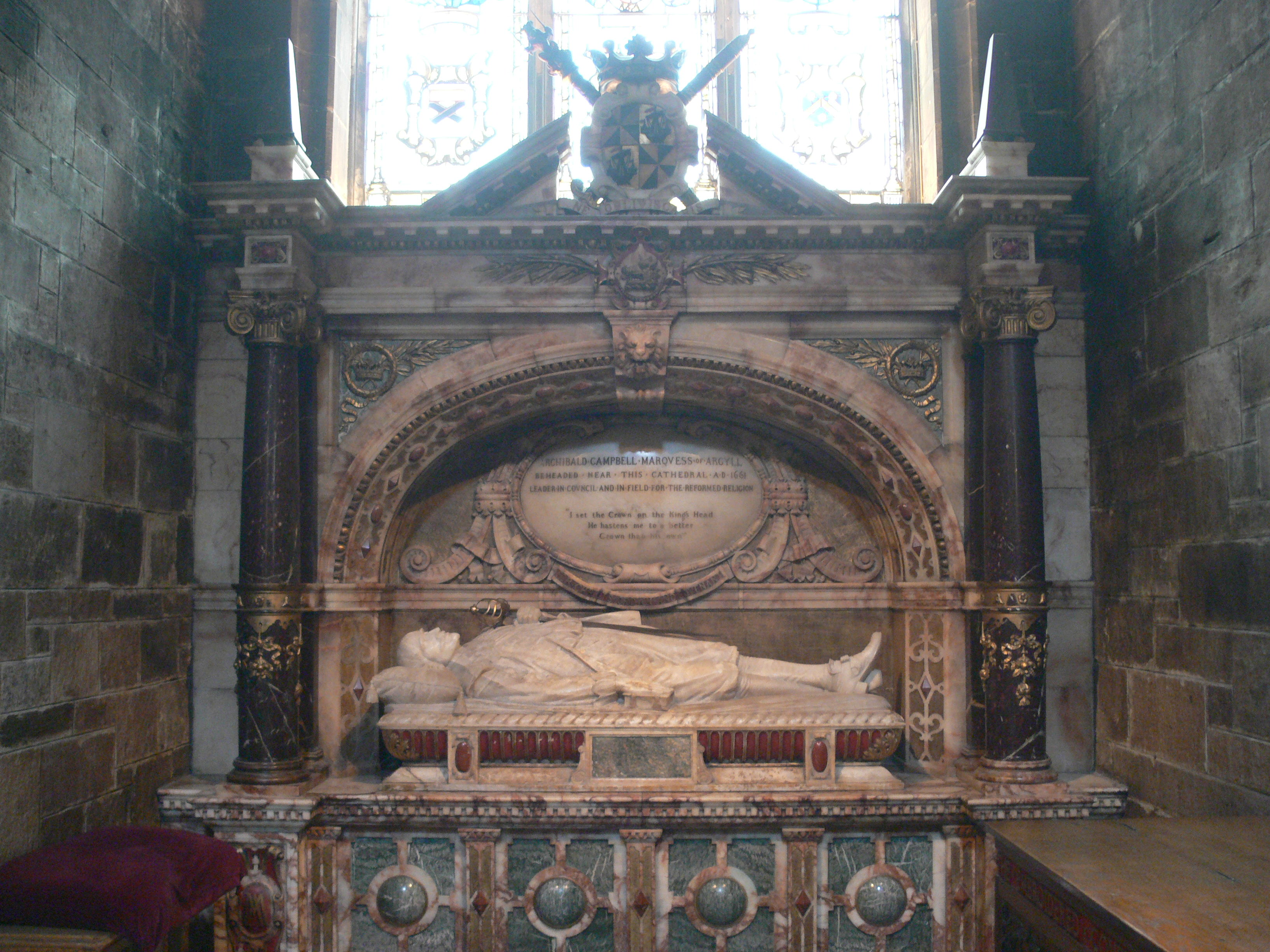 St Giles' Cathedral